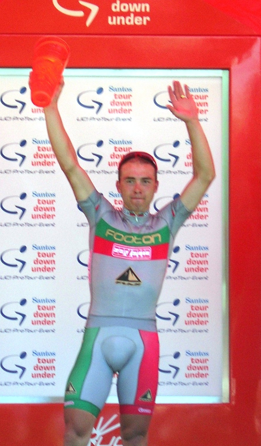 Footon-Servetto-Fuji rider Manuel Cardoso on the podium after winning Stage 3 of the 2010 Tour Down Under into Stirling.